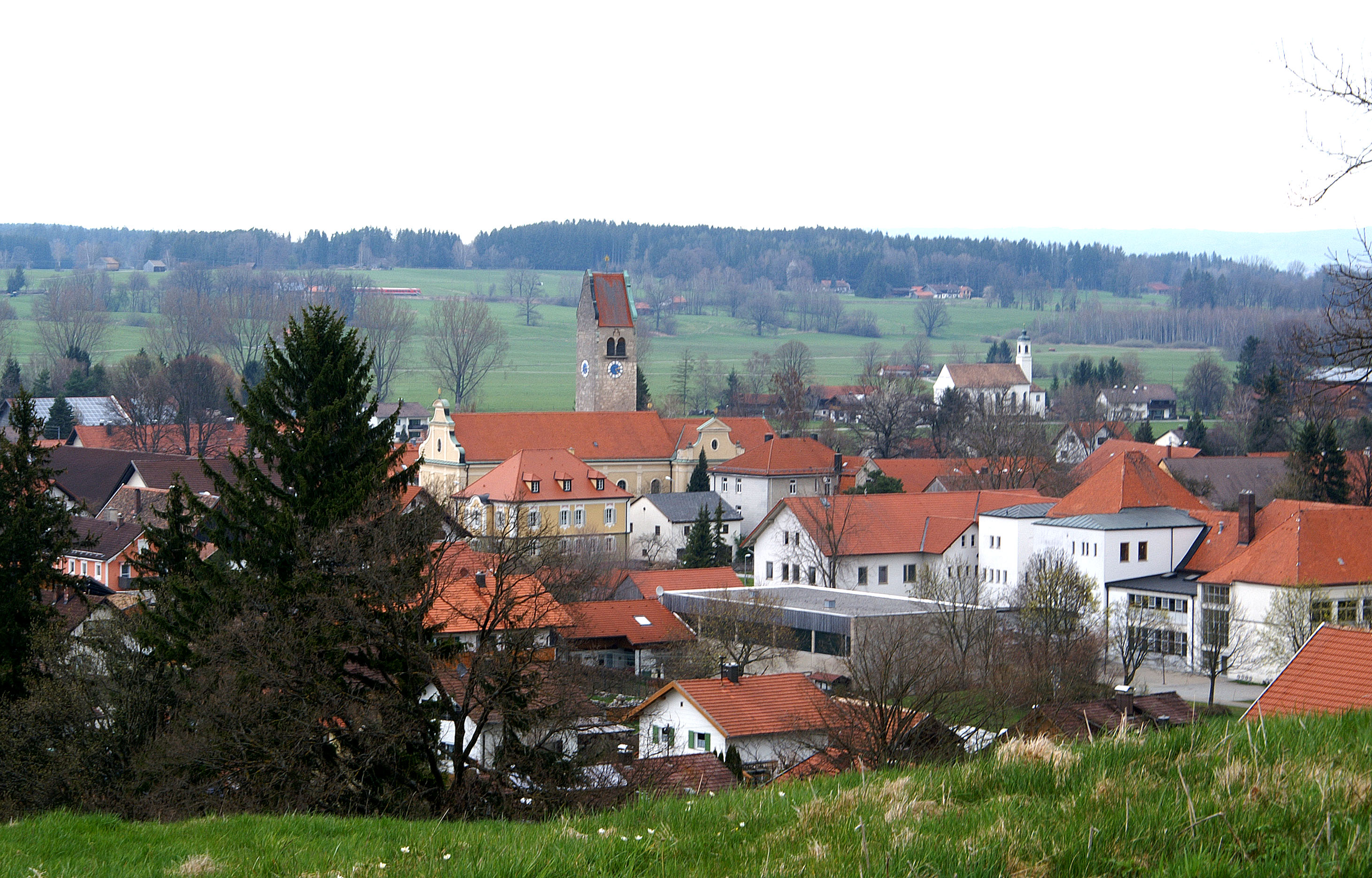 Peißenberg von Süden